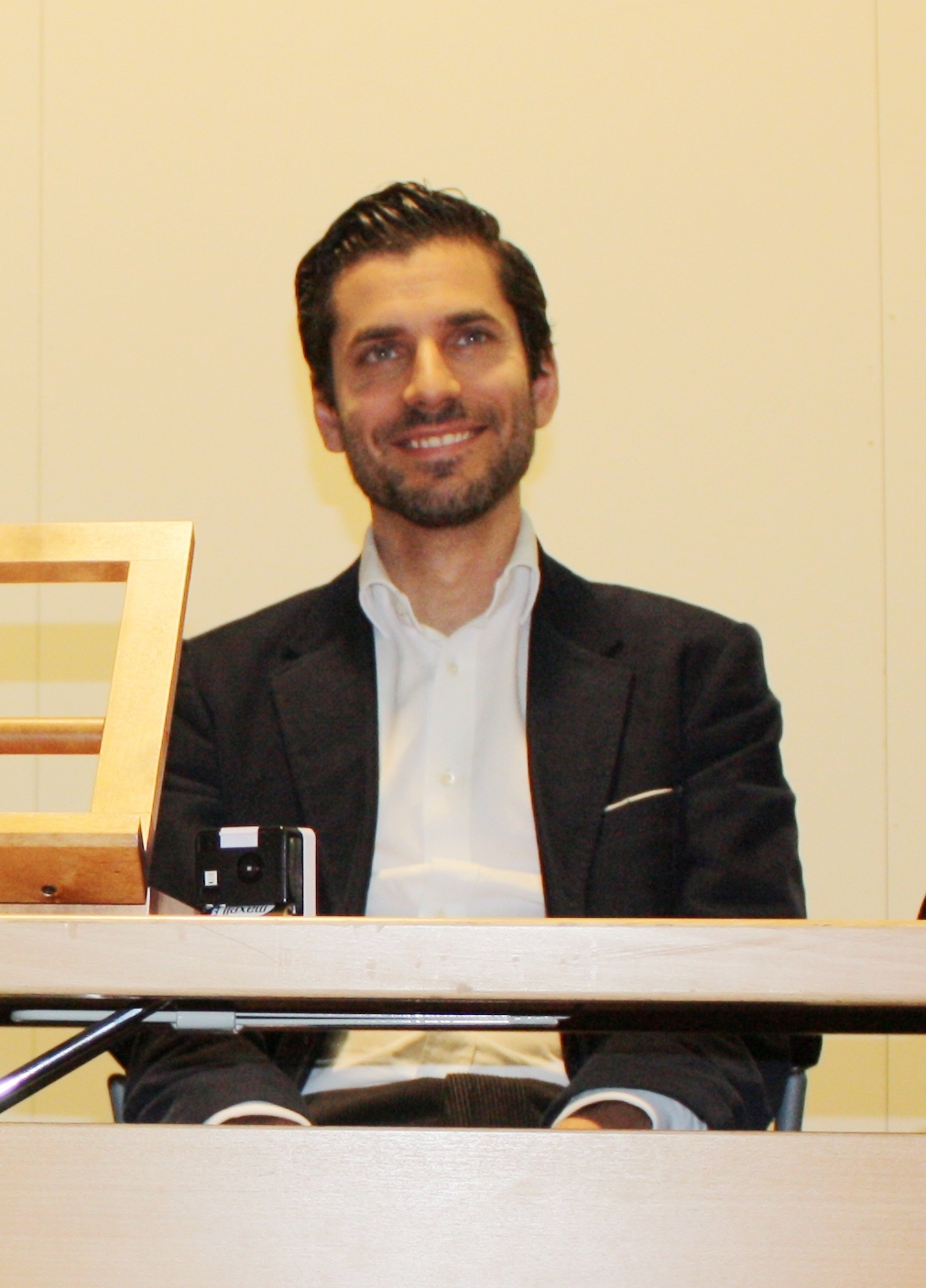 Swedish writer Jens Lapidus at Helsinki Book Fair 2009